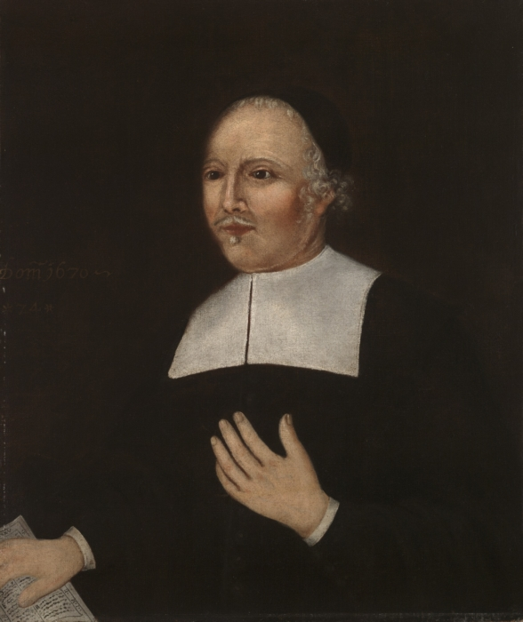 "Reverend John Davenport, (1597-1669/70)", oil on canvas, by the 'Davenport limner' (unknown artist). 27 1/4 in. x 23 in. Courtesy of the Yale University Art Gallery, Yale University, New Haven, Conn.